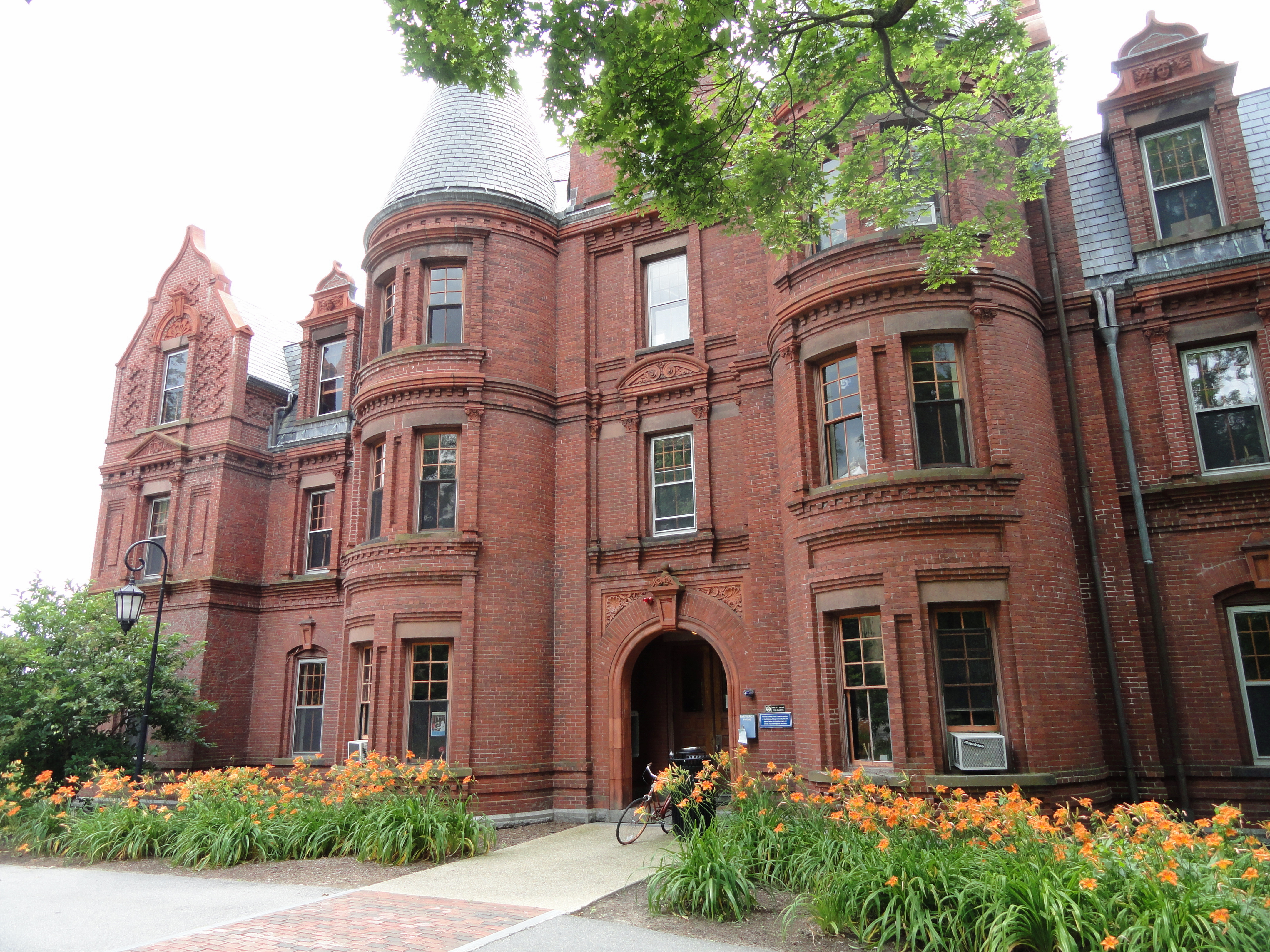 Billings Hall, Wellesley College, Wellesley, Massachusetts, USA.